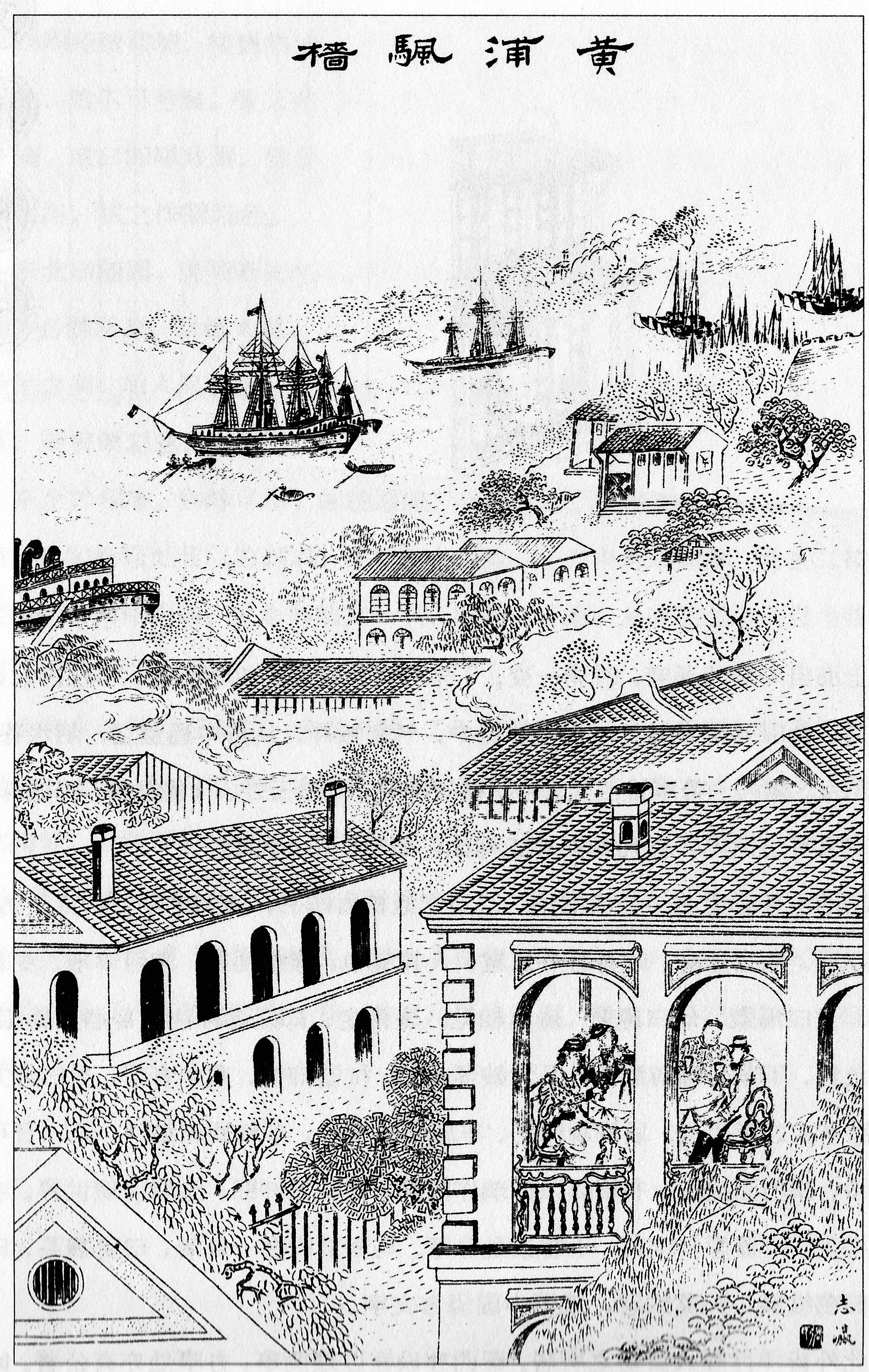 Drawing of Shanghai in 19th century Wang Tao's travel